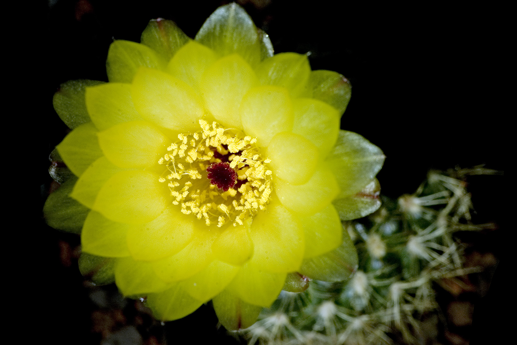 Parodia concinna formerly Notocactus concinnus var. aceguaensis AH197, color was mostly yellow; size of Notocactus: diameter 4.2cm, height 2.5cm.